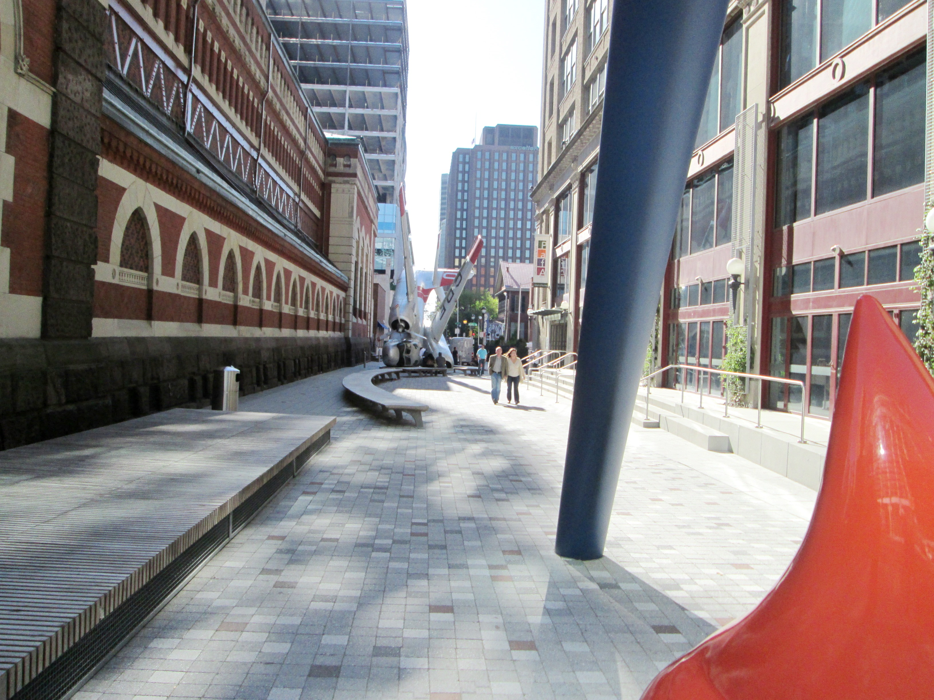 The Pennsylvania Academy of the Fine Arts building at Broad and Cherry Streets in the Center City area of Philadelphia was built from 1872-1876 and was designed by Frank Furness and George Hewitt in a combination of historical styles. It was restored in 1976, and is a National Historic Landmark. (Source: Philadelphia Architecture: A Guide to the City) This image shows the Cherry Street walkway between the original (Furness-Hewitt) building (right) and the Samuel M.V. Hamilton Building (left), a former Federal building and automobile factory purchased by the museum in 2002 and opened in 2006. In the walkway are two installations; in the foreground is Claes Oldenburg's Paint Torch (2011), and in the background is the Grumman Greenhouse by Jordan Griska, made from a Grumman S2F aircraft.